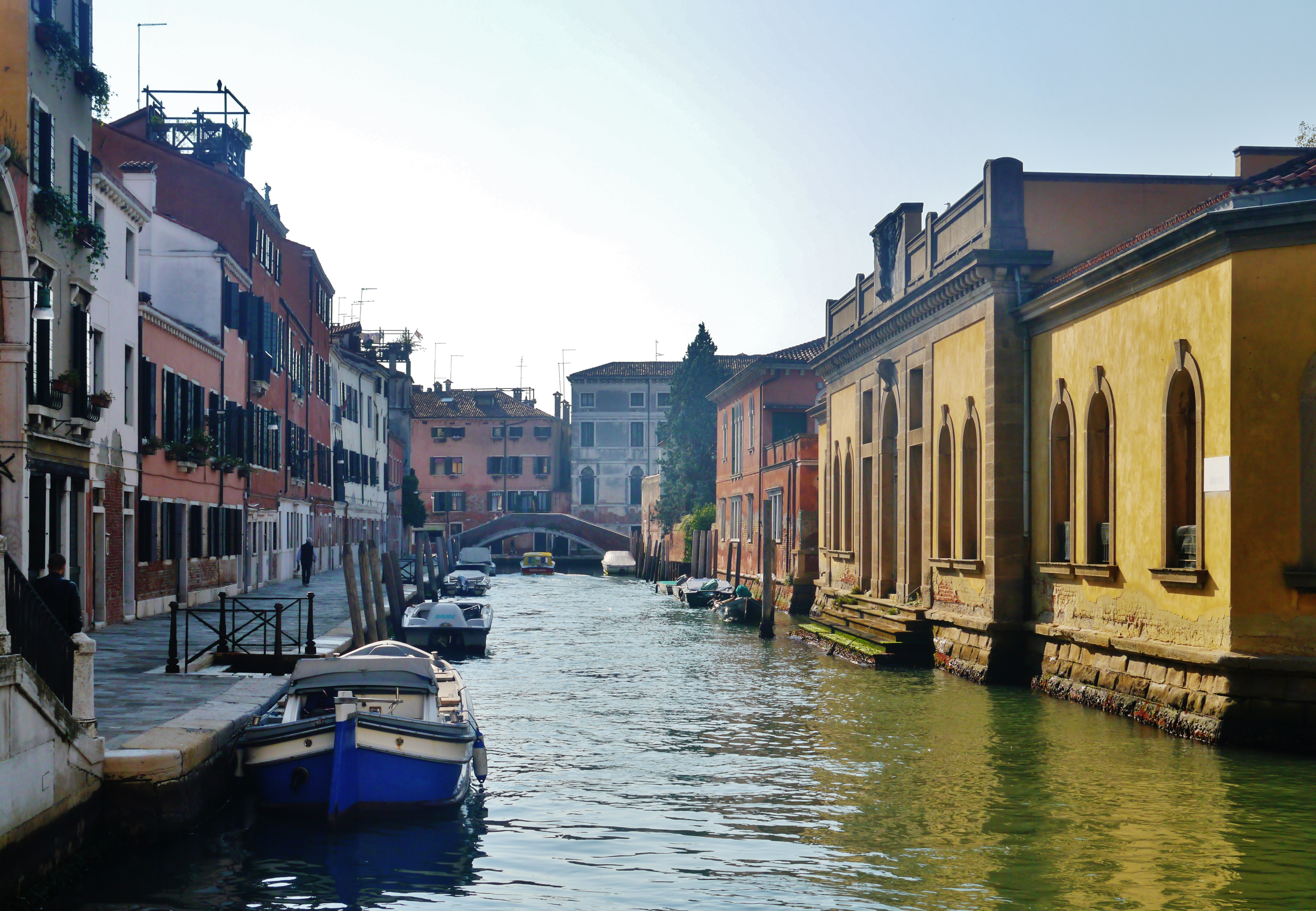 unknown Canal, Venice, Metropolitan City of Venice, Region of Veneto, Italy